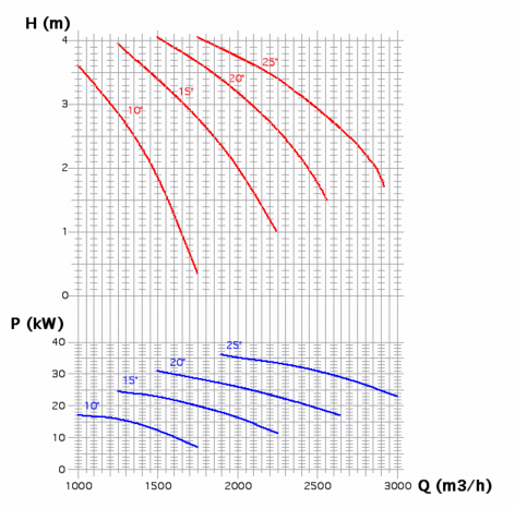 Typical characteristic curve of an axial flow pump DN 500 at 9.5 rad/s Author : R. Castelnuovo (myself) 2005 09 28